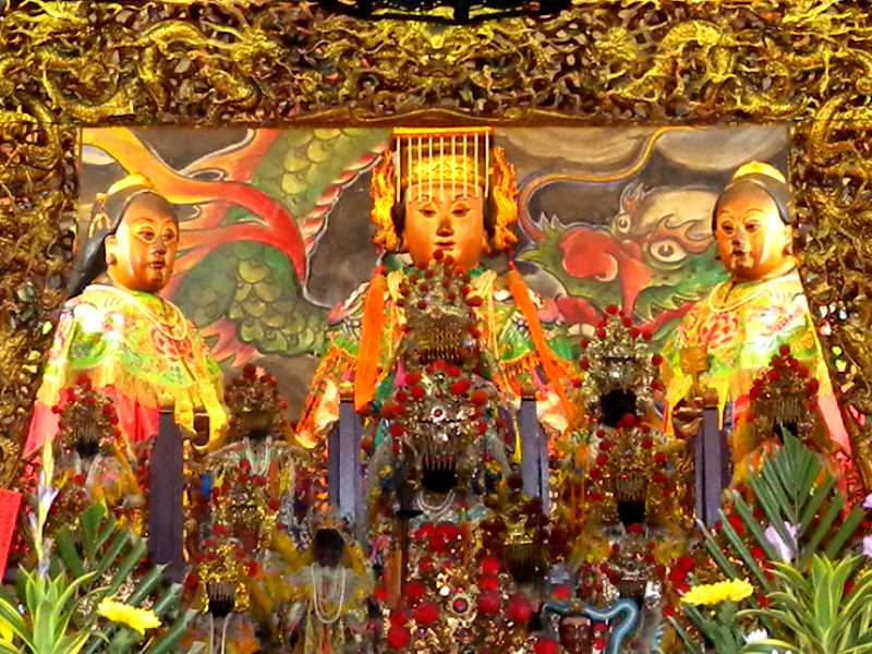 Matsu